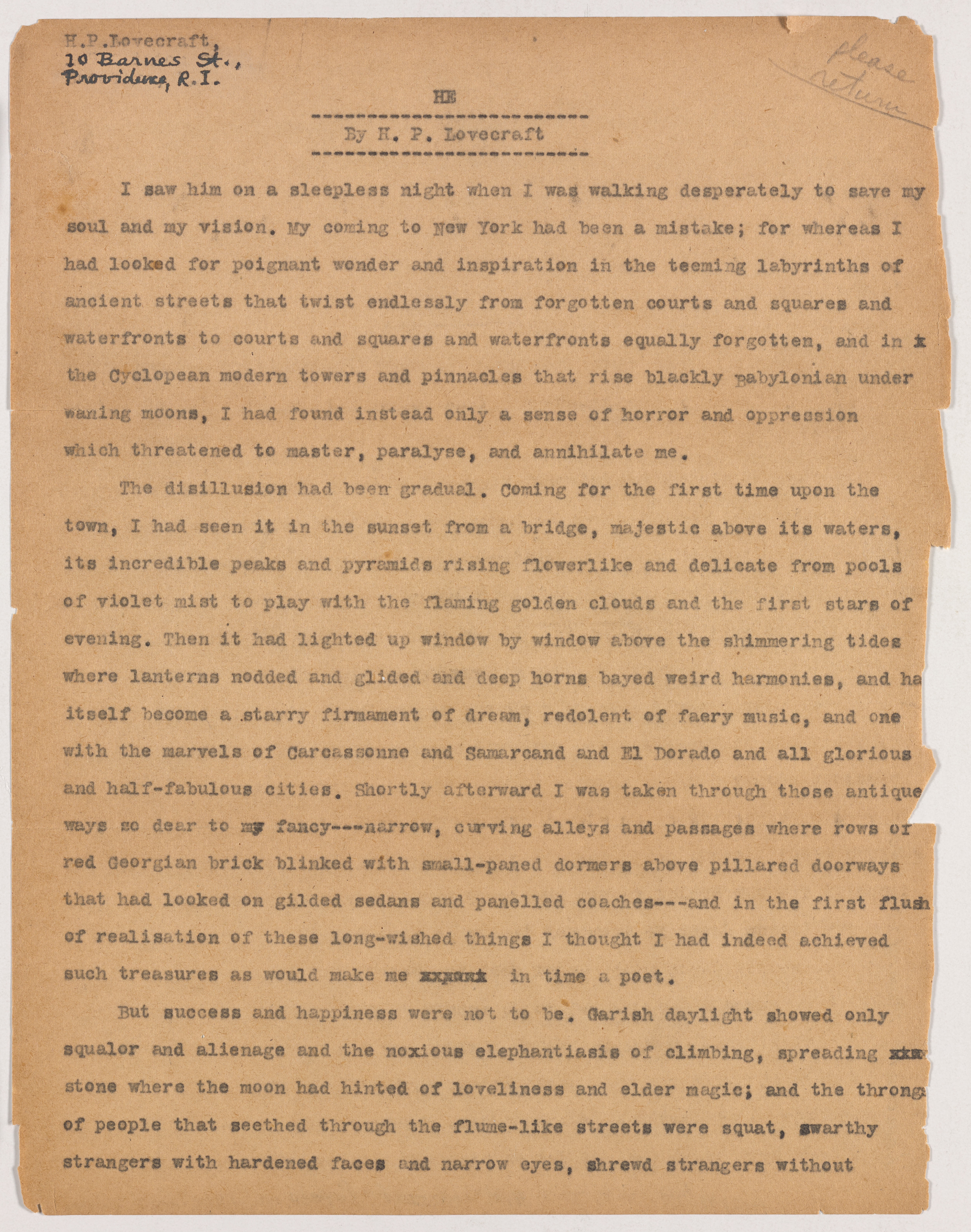 First page of the manuscript He.